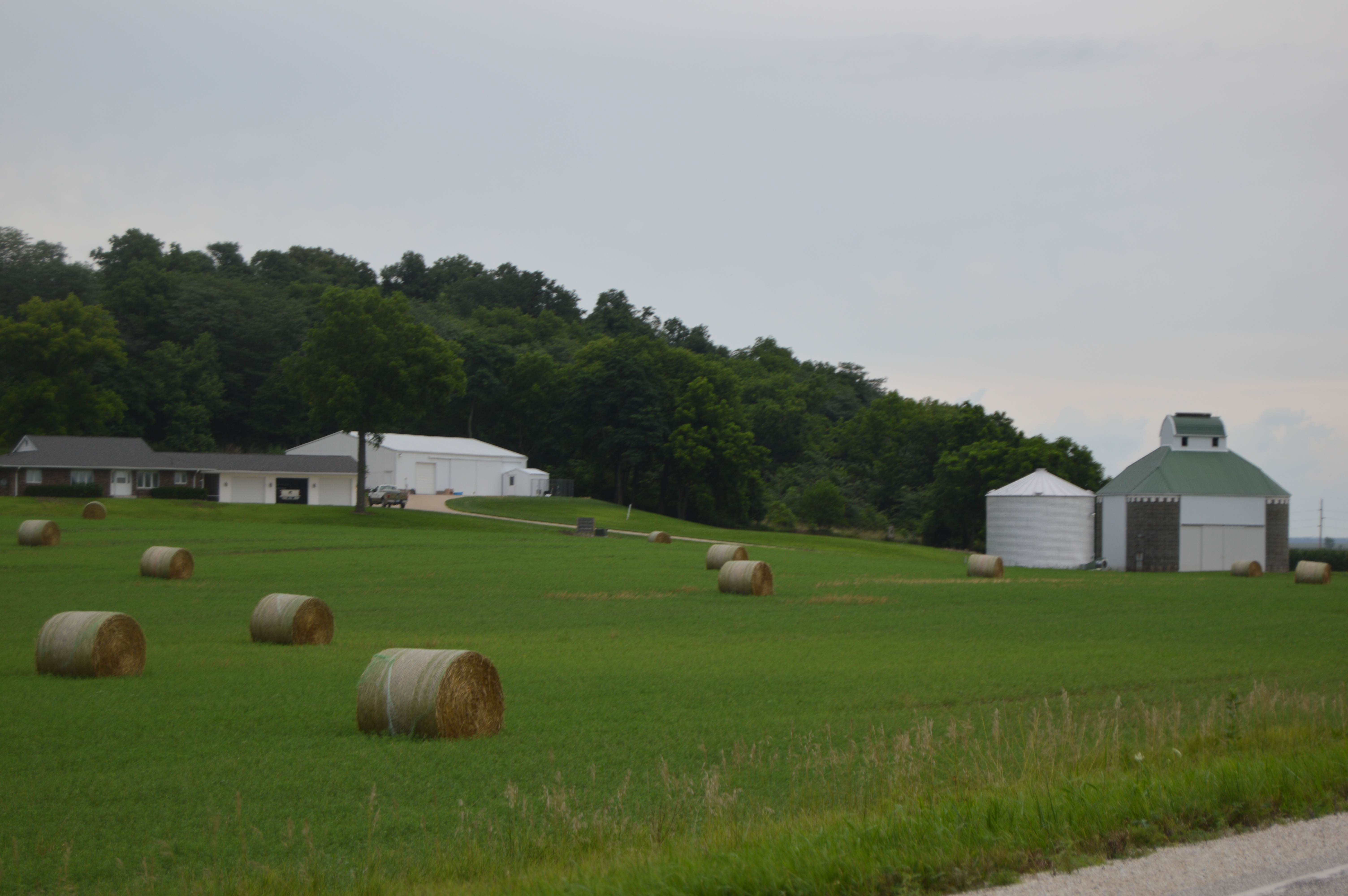 Fields and farm buildings in extreme southern Huron Township (photo is taken from Benton Township) along County Road X99 just north of Kingston in Des Moines County, Iowa, United States.